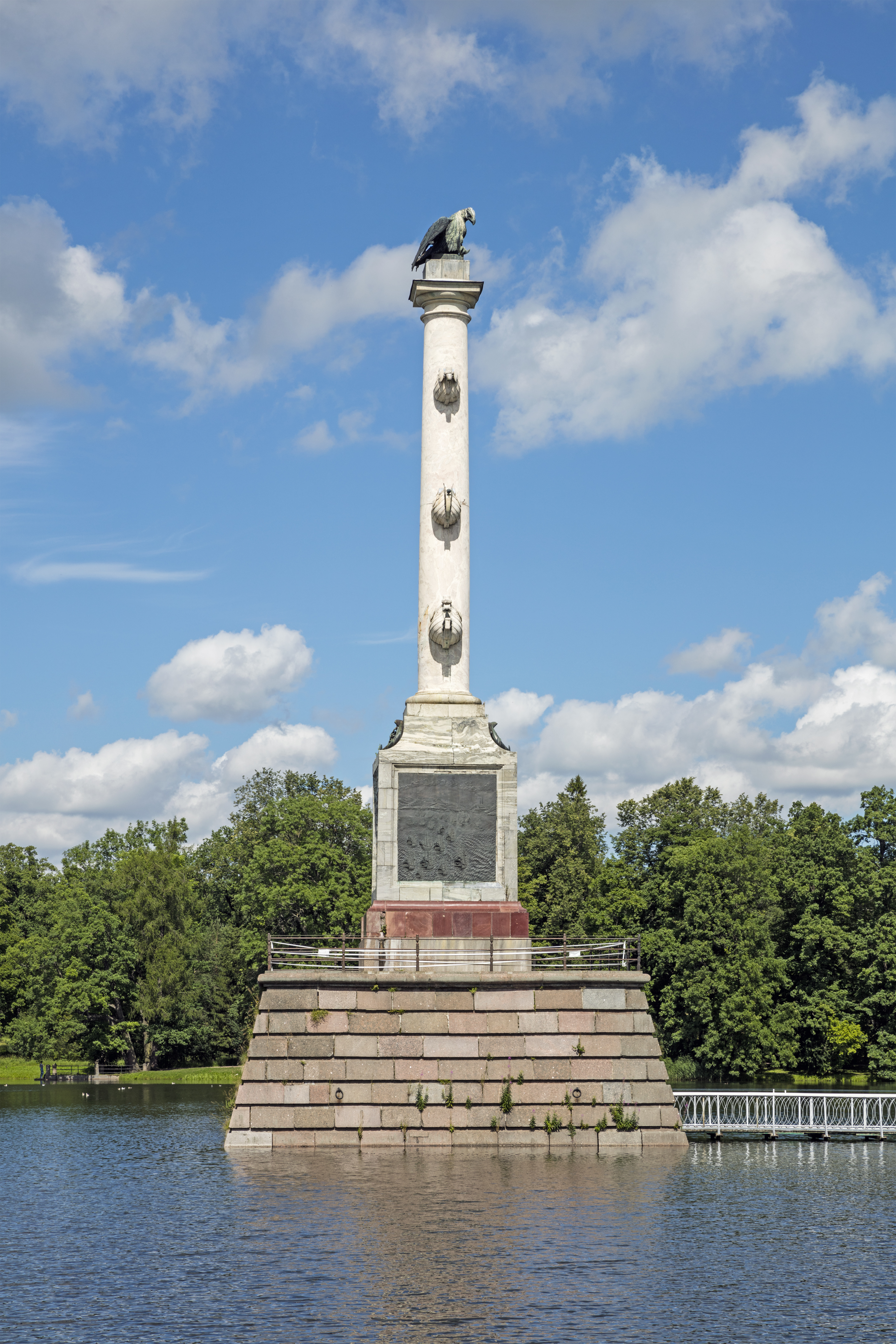 The Rinaldi-designed Chesme Column is located at Catherine’s Park (Tsarskoye Selo), Saint Petersburg, Russia. The column commemorates the Russian naval victory in the Battle of Chesma.